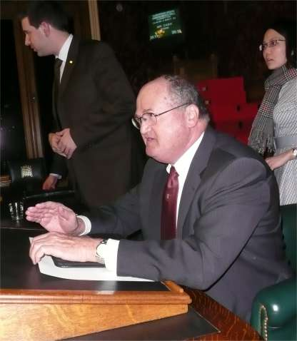 Martin van Creveld in the House of Commons (UK)